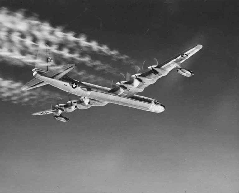 Convair NB-36H airplane, the first aircraft to fly with an operating atomic reactor aboard, August 6, 1956 Photographer: Convair Subjects (LCSH): Convair airplanes Fighter planes Digital Collection: Transportation Collection Item Number: TRA852 Persistent URL: Visit Special Collections reproductions and rights page for information on ordering a copy. University of Washington Libraries. Digital Collections